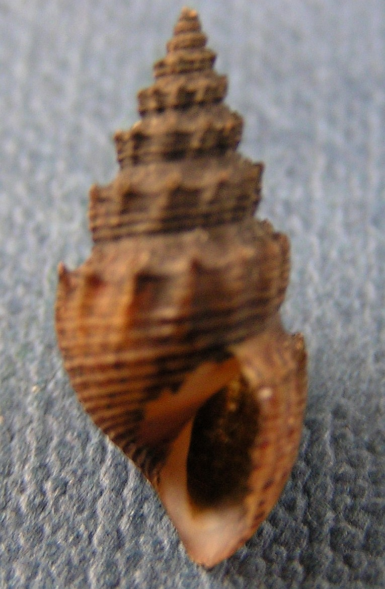 Thiara winteri von Dem Busch, 1842, a sea snail from the family Thiaridae; Philippines